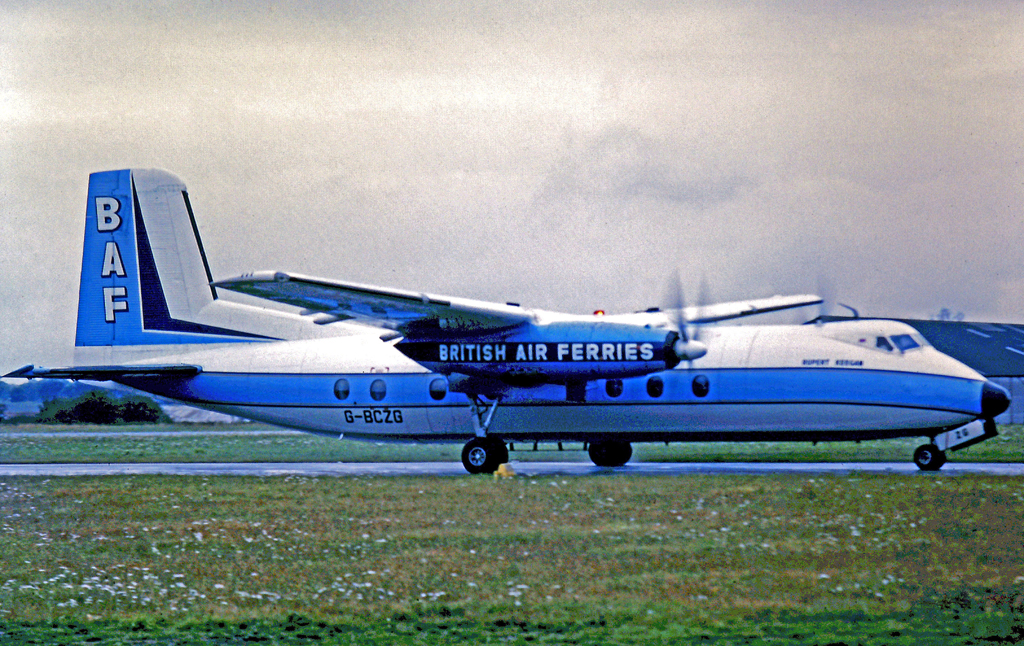 Handley Page Dart Herald G-BCZG of British Air Ferries at Southend Airport in 1976